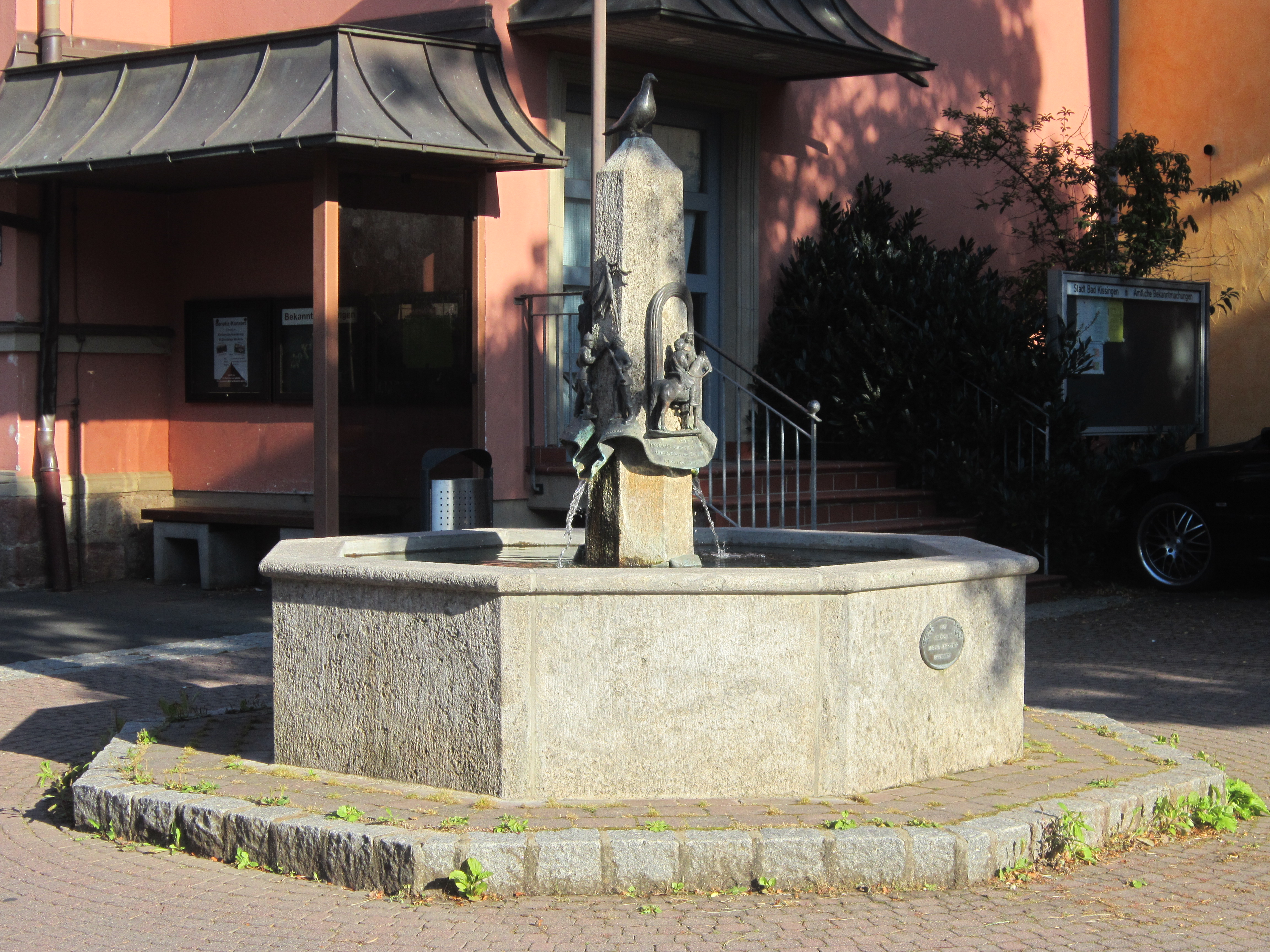 Village well in Winkels, a quarter of the German spa town of Bad Kissingen in Lower Franconia (Bavaria).